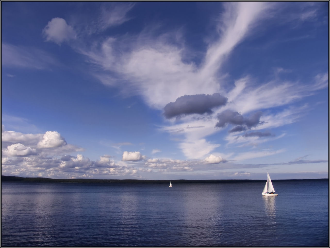 Petrozavodsk Bay, view from Petrozavodsk.